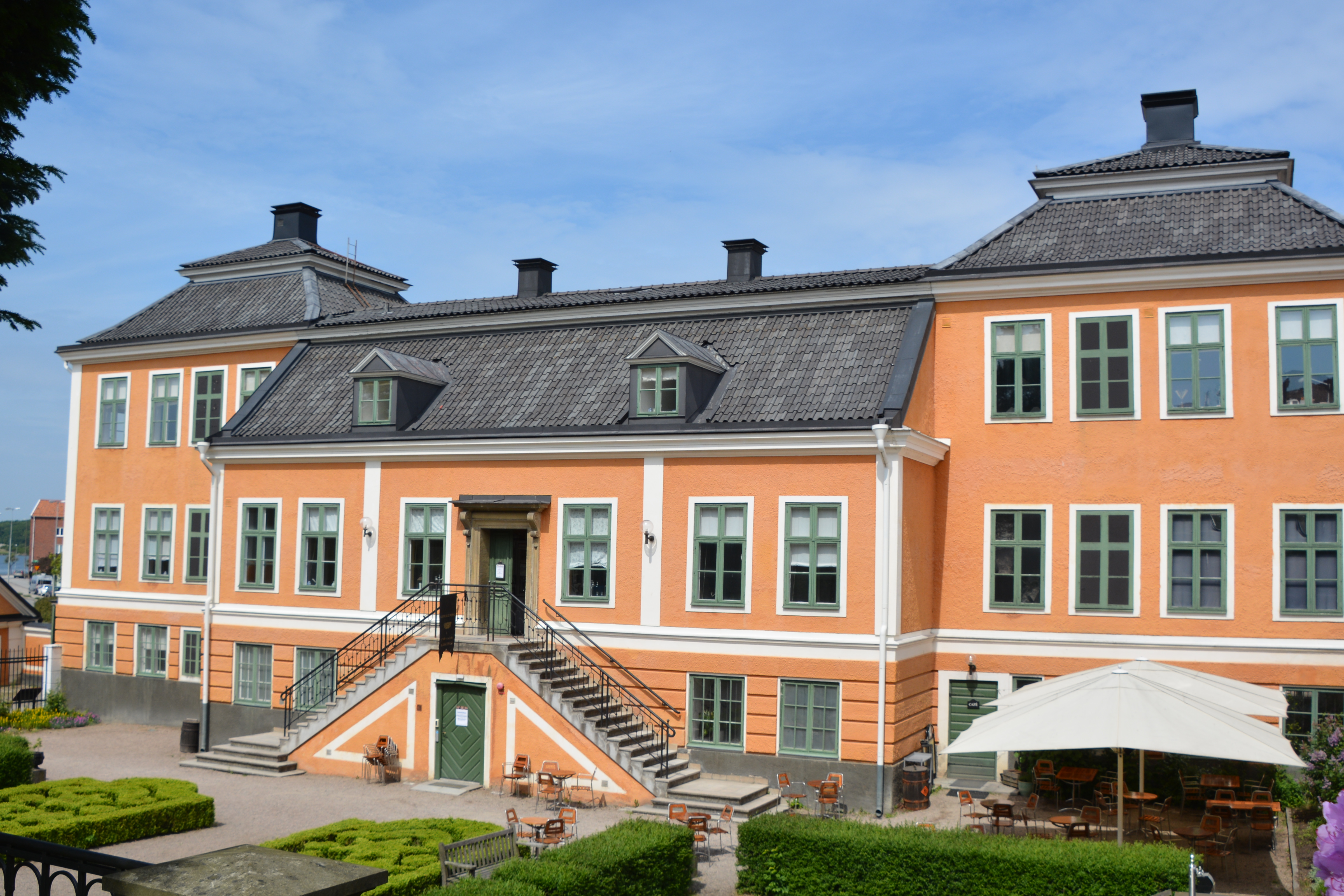 Grevagården i Karlskrona